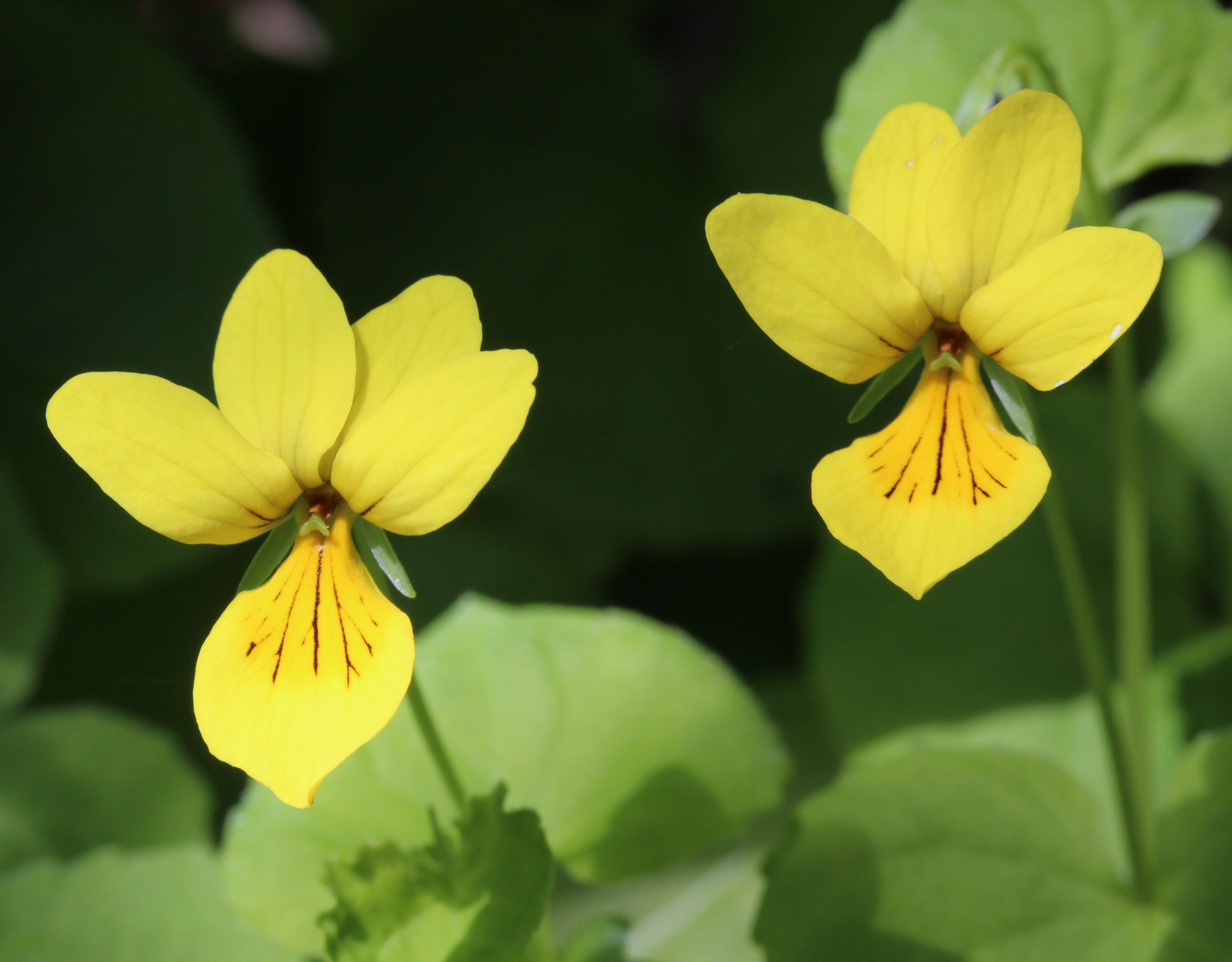 Flowers of Viola biflora L. in Mount Haku, Gifu prefecture, Japan.